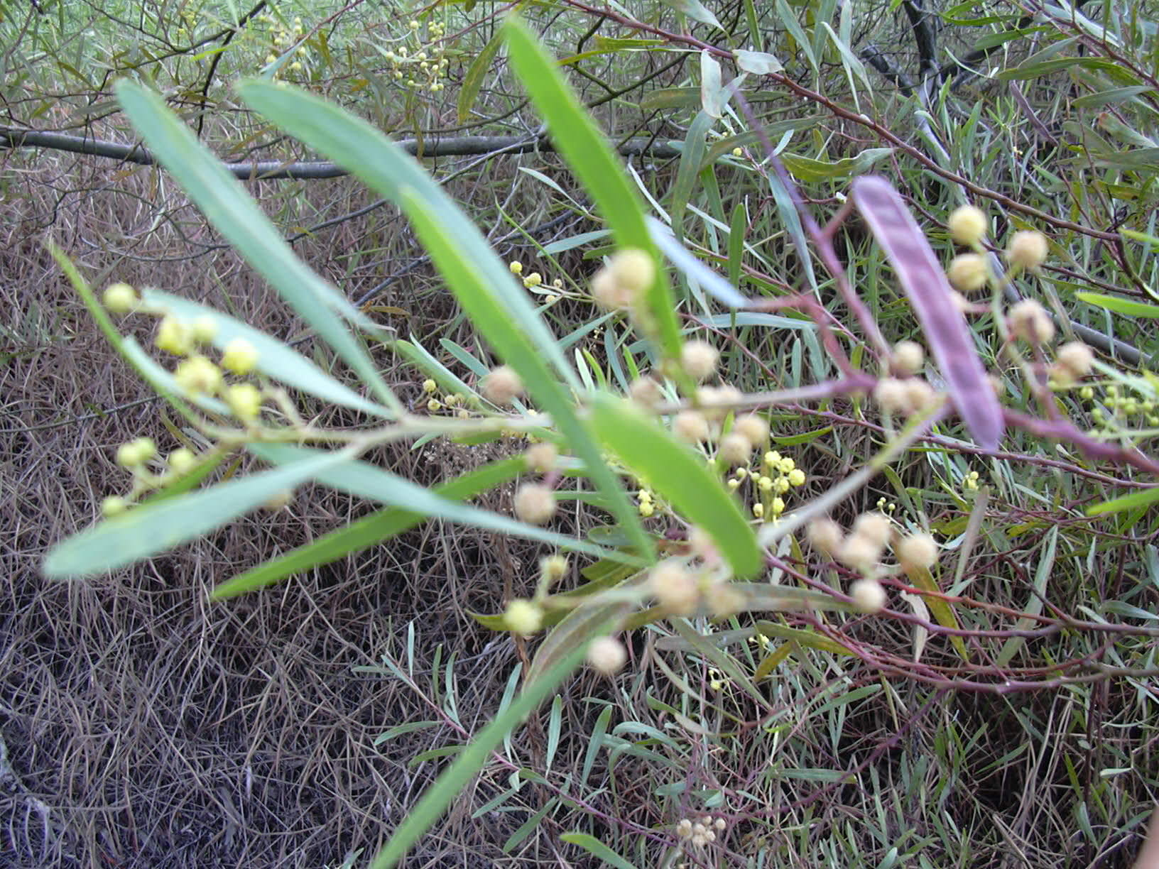 Acacia retinodes (flowers and seed pod). Location: Maui, Kula